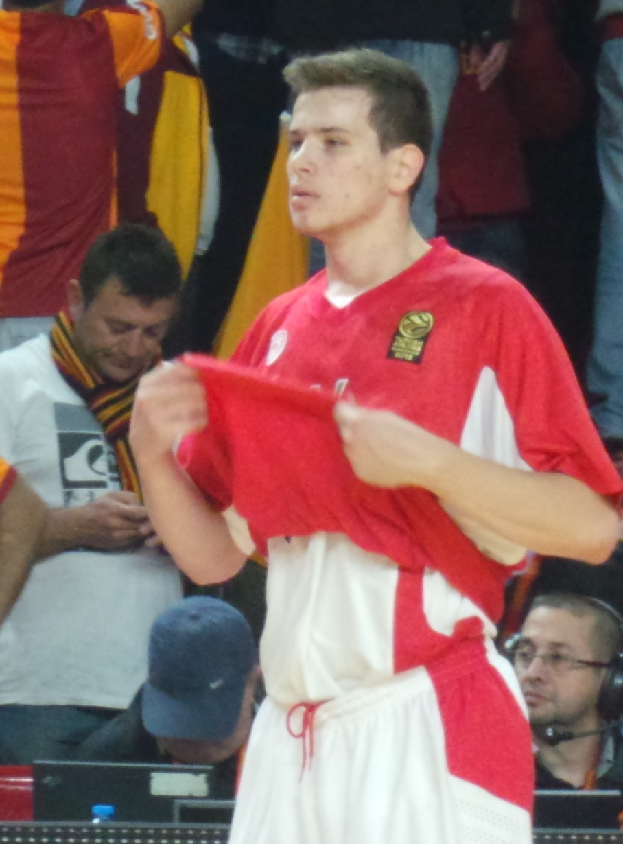 Dimitrios Agravanis